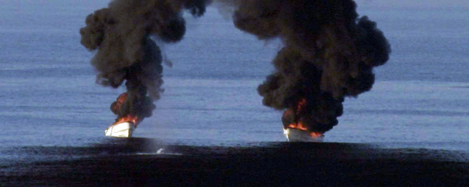 ARABIAN SEA (Feb. 2, 2011) Suspected pirate skiffs burn from weapons fire from the guided-missile destroyer USS Momsen (DDG 92) after Momsen disrupted an attack on a commercial oil tanker in the Arabian Sea. Momsen and the guided-missile cruiser USS Bunker Hill (CG 54) came to the aid of the merchant vessel simultaneously in a coordinated rescue and assist effort after receiving a distress call. Momsen and Bunker Hill are deployed supporting maritime security operations and theater security cooperation efforts in the U.S. 5th Fleet area of responsibility. (U.S. Navy photo by Chief Hull Maintenance Technician John Parkin/Released)